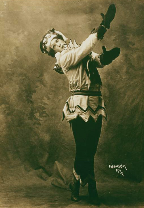 Posed sur les demi pointes, right foot front, right arm raised upward across his body, left hand extended slightly forward, head tilted toward his right in the title role of Petrouchka.